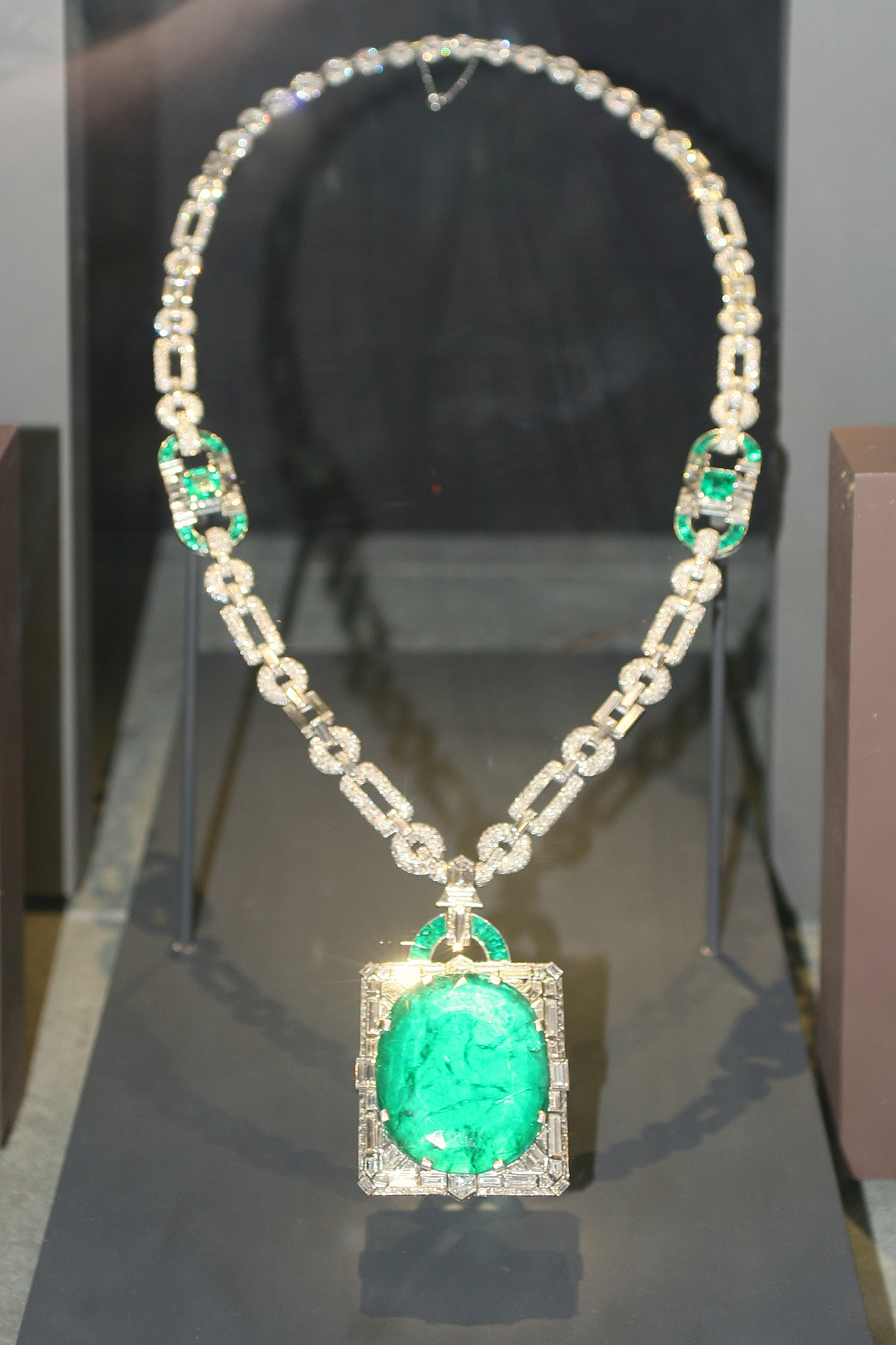 Mackay Emerald and Diamond Necklance 168 carats Muzo, Colombia This huge emerald is set in an art deco diamond and platinum pendant designed by Cartier. In 1931, Clarence Mackay gave the necklace as a wedding gift to his wife, Anna Case -- a prima donna at the New York Metropolitan Opera from 1909 to 1920.